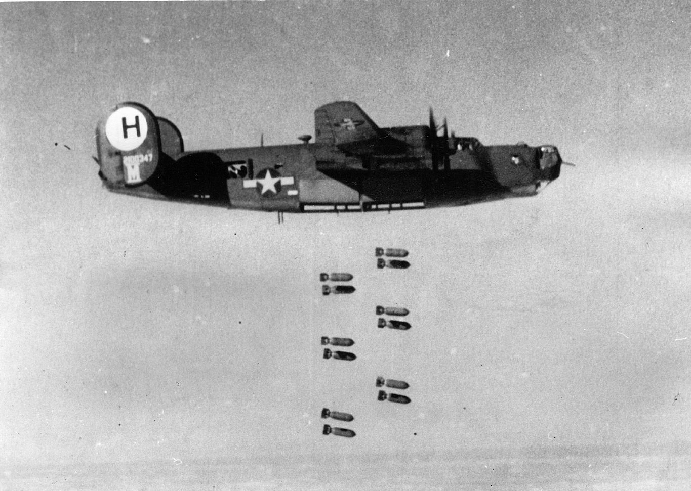 A B-24 Liberator (serial number 42-100347) of the 446th Bomb Group bombs Gotha, 20 February 1944. Handwritten caption on reverse: '39. 446BG, 20/2/44. Gotha, from 27616, 17,000 ft. Better print?'